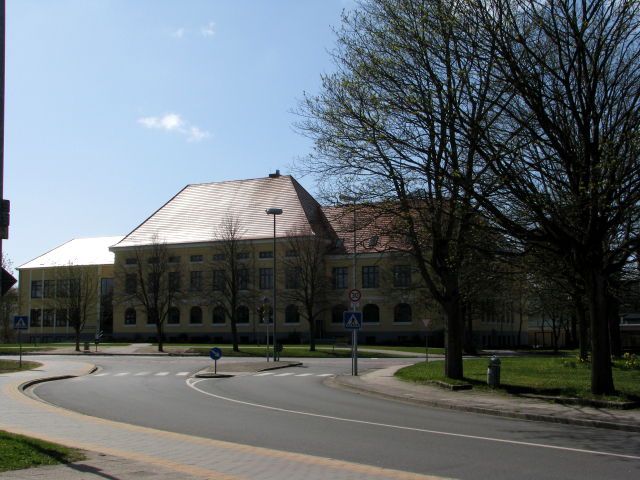 Gemeinschaftsschule Nord in the city of Husum (Germany)